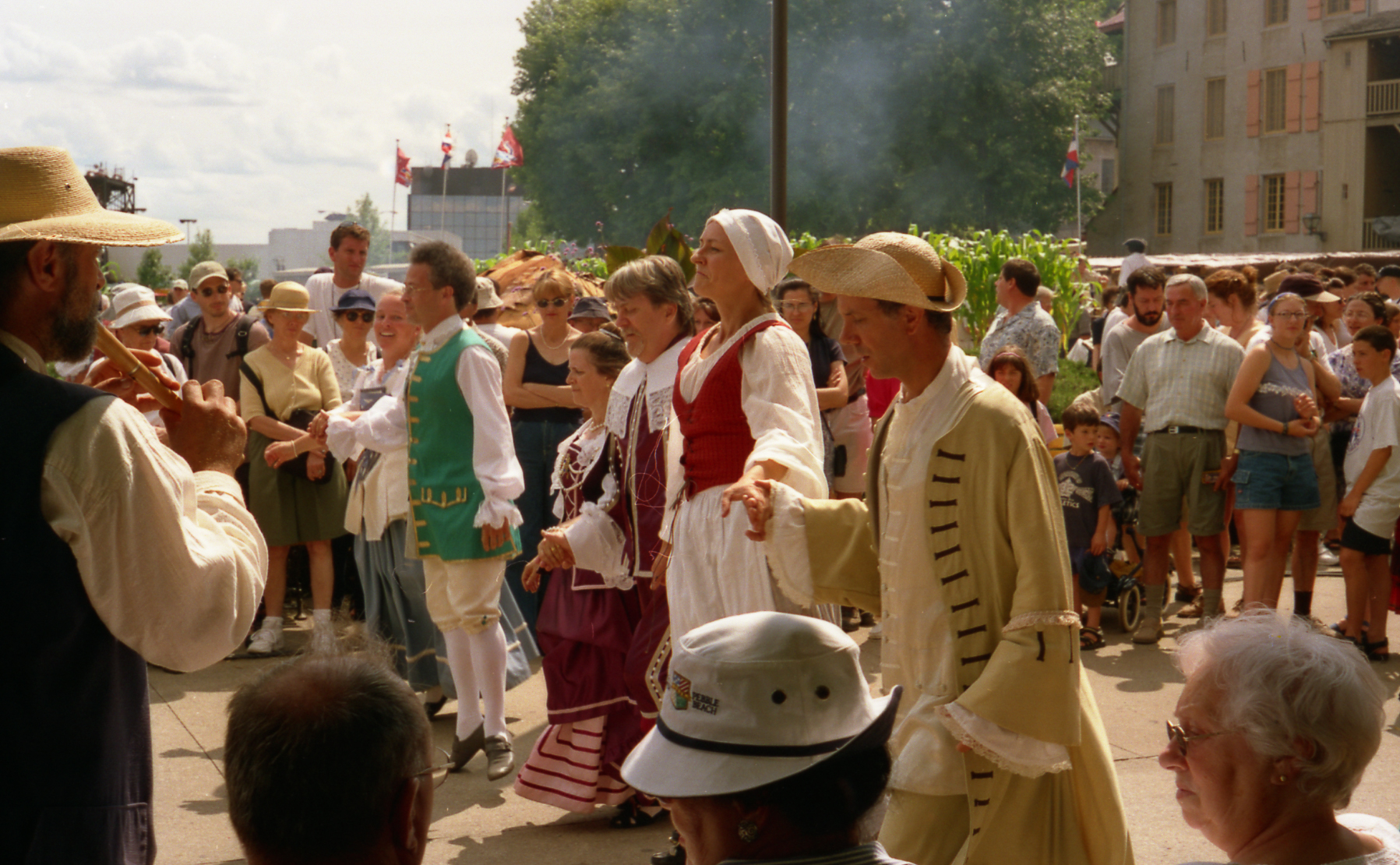 10th annual Fêtes de la Nouvelle-France ("Festival of New France"), held August 2-6, 2006, in Quebec, Canada.